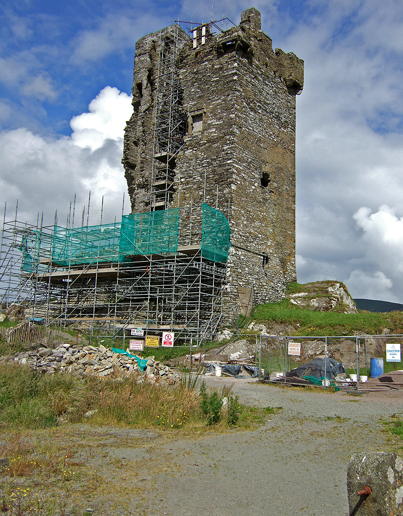 Castledonovan Castle Previously in a precarious state of preservation having suffered severe damage by Cromwell's army in 1650, the castle is currently undergoing repair and restoration. What was the chief seat of the O'Donovan clan, stands on a rocky outcrop on the eastern bank of the River Ilen. No definitive date can be given for the building of Castledonovan, but it is reputed to have been in about 1560 by Domhnall a'Croichinn.